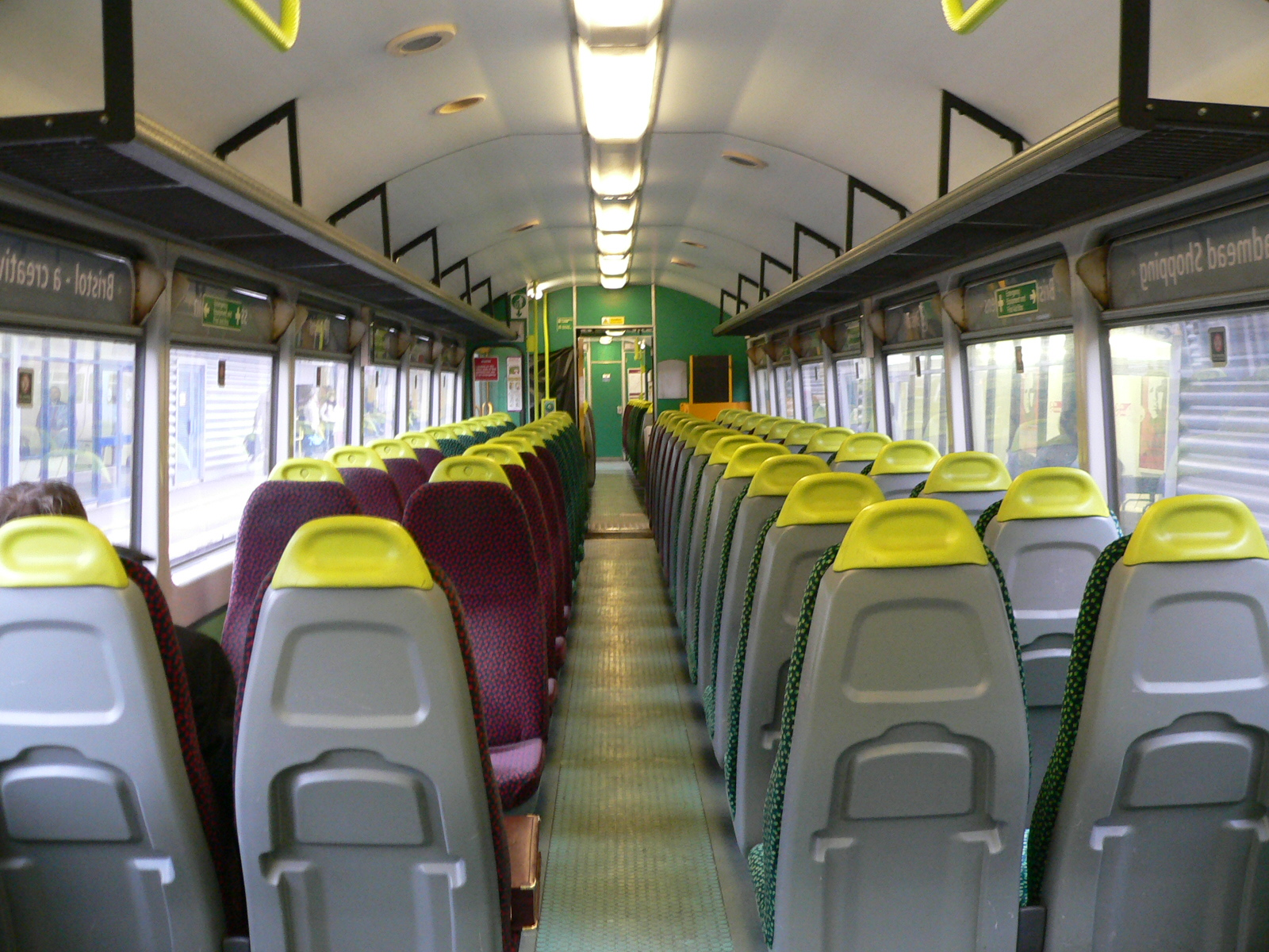 The interior of Wessex Trains Class 143 DMU railbus 143609. The individual high-back seating is much more comfortable than the original bus-style low backed bench seating that the clas was originally fitted with.